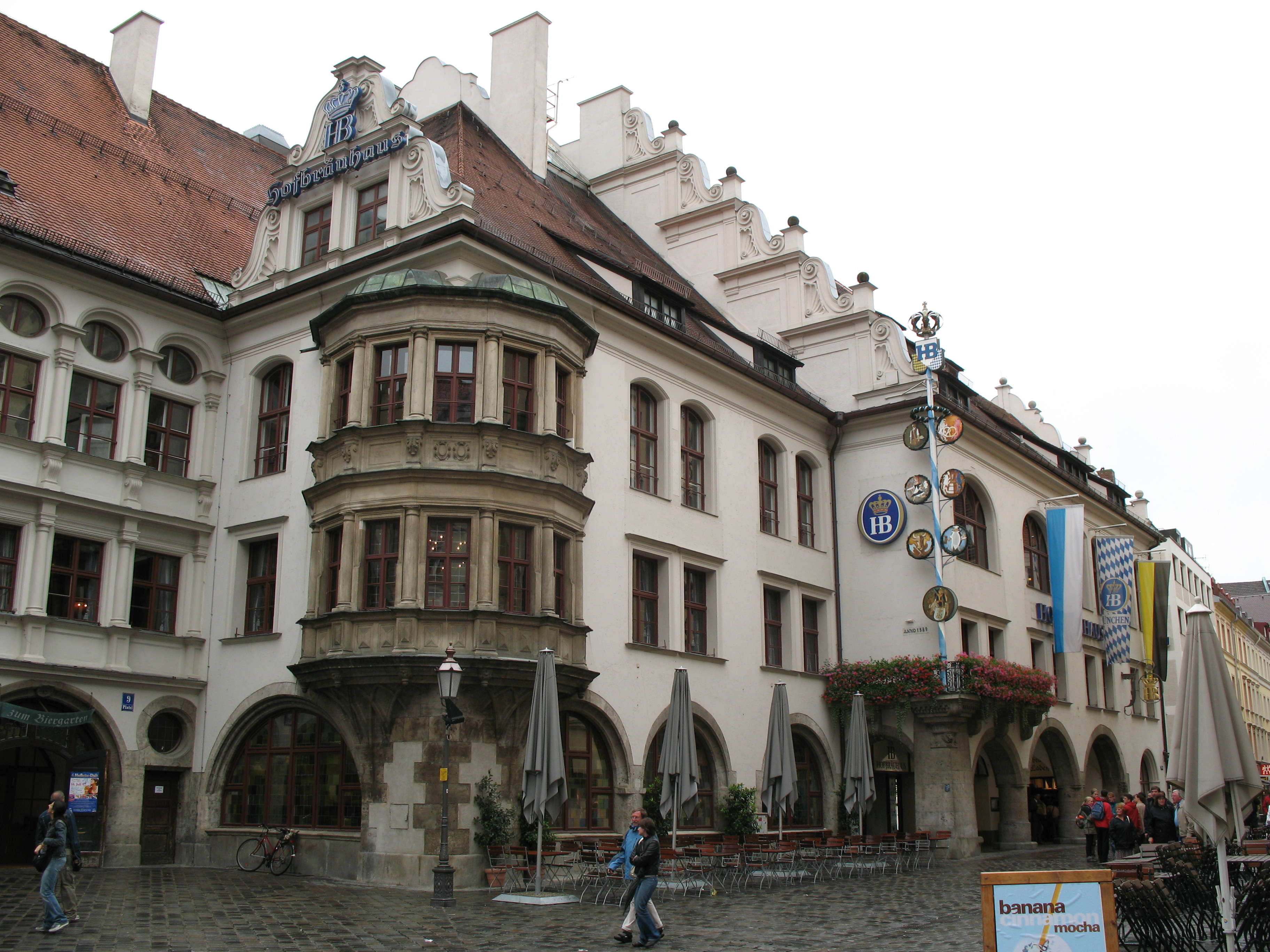 Hofbräuhaus (Yard Brew House), Munich, Germany